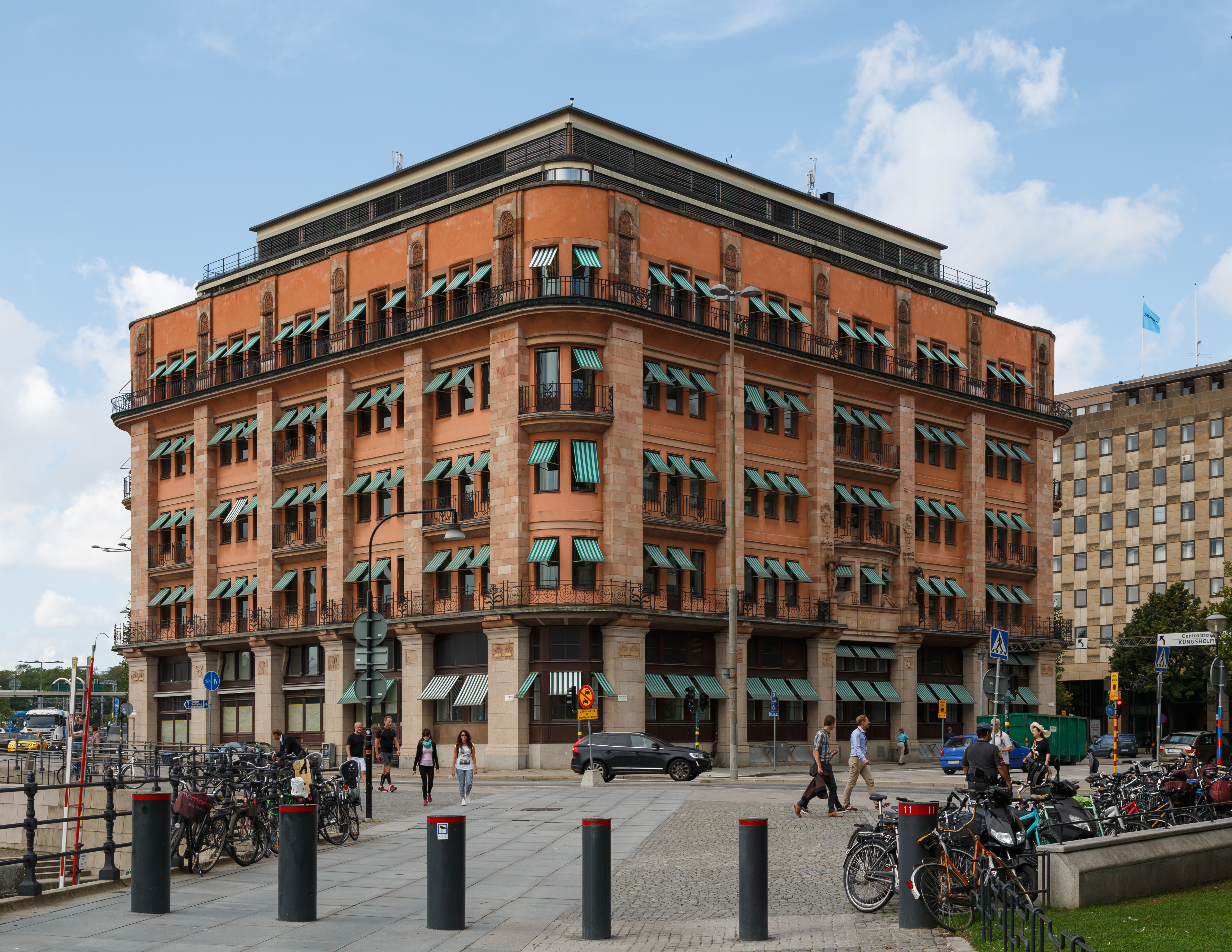 Stockholm, Sweden: Ministry of the Environment and Energy (Sweden).